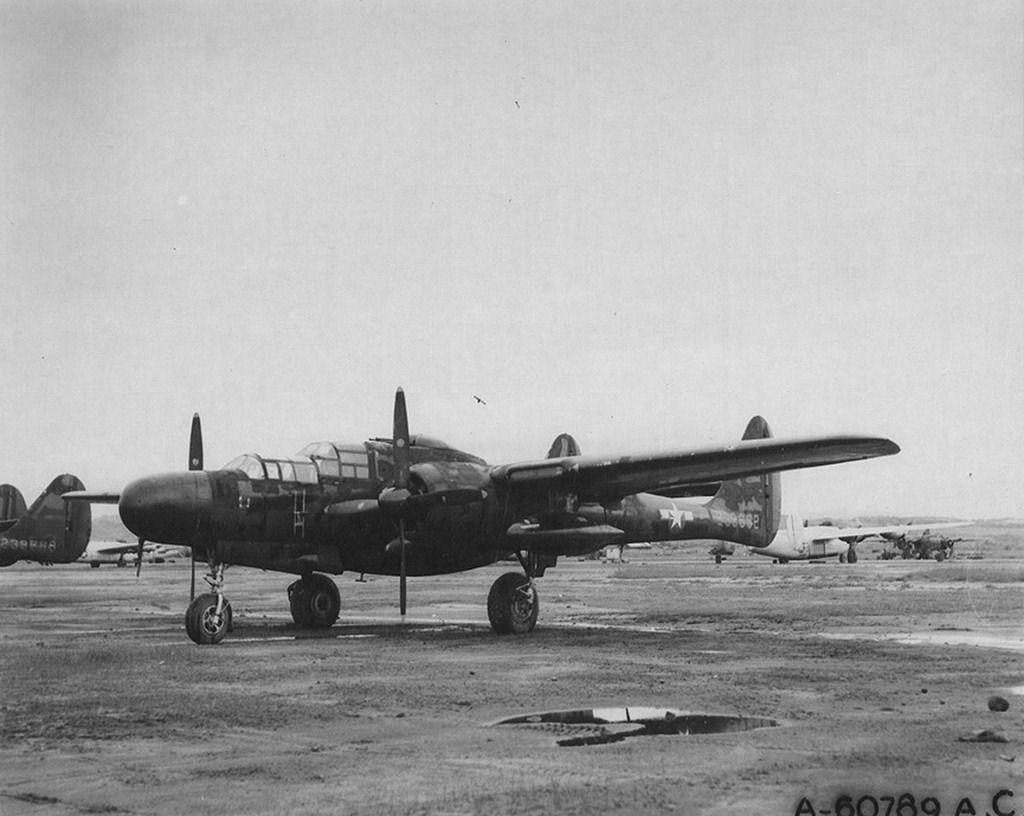 416th Night Fighter Squadron Northrop P-61B-15-NO Black Widow 42-39682